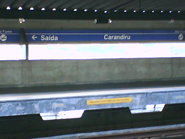 Carandiru station platform of the subway in Sao Paulo.